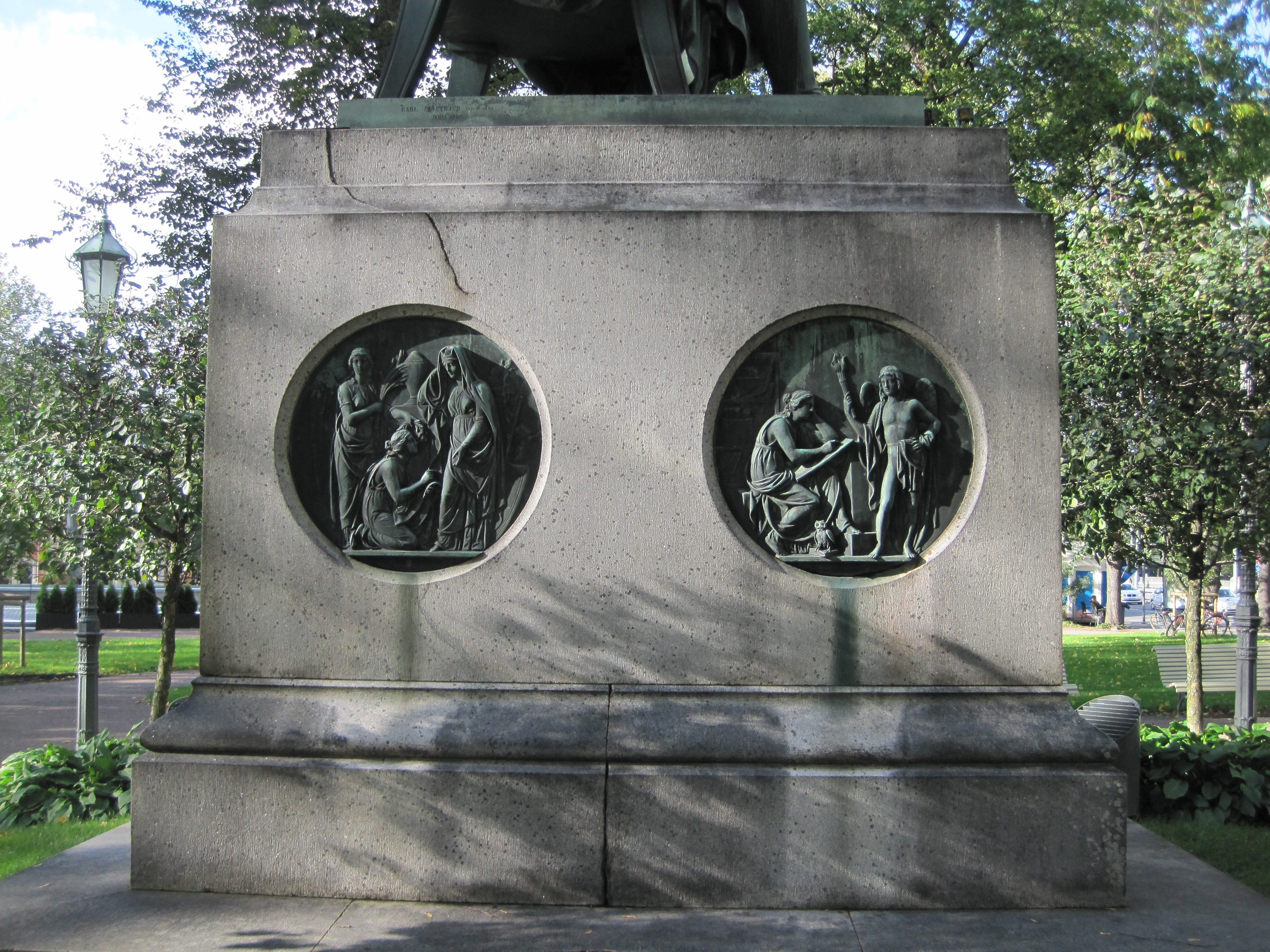 Statue of Henrik Gabriel Porthan, Turku, Finland check usage